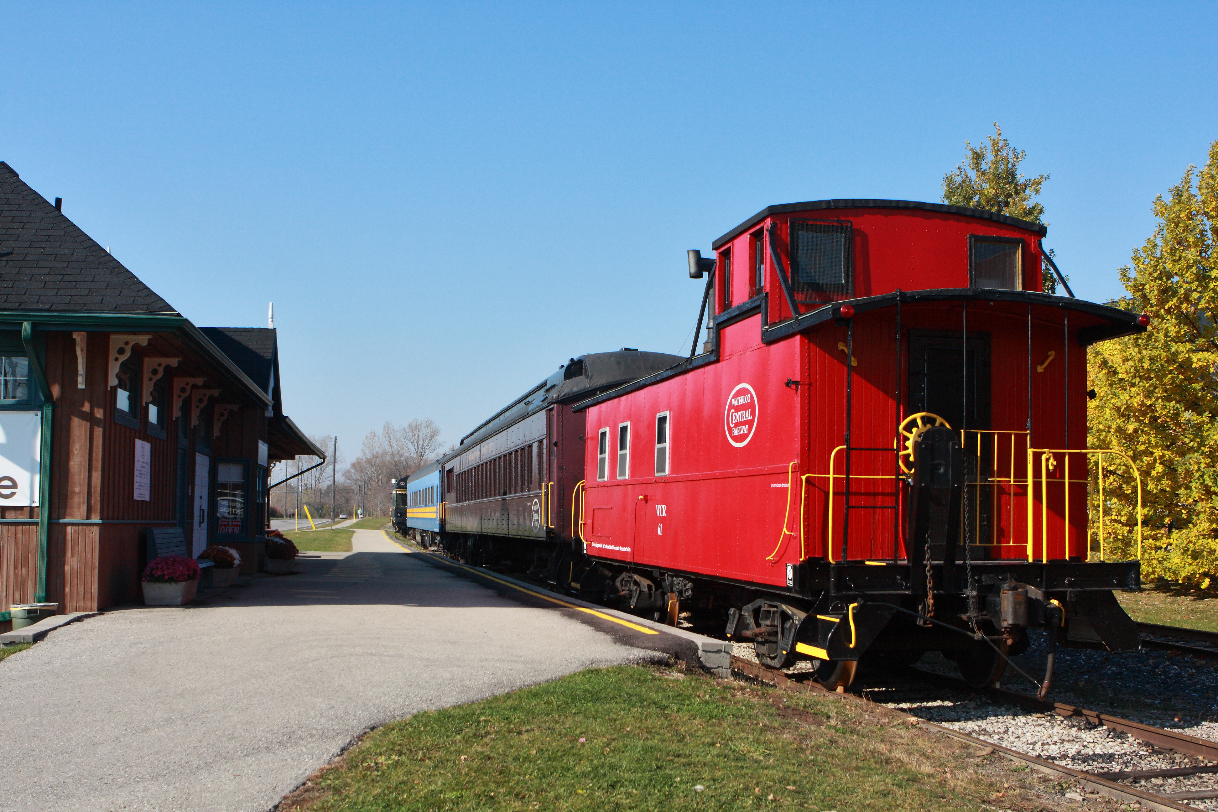 Waterloo Central Railway locomotive waiting in train station